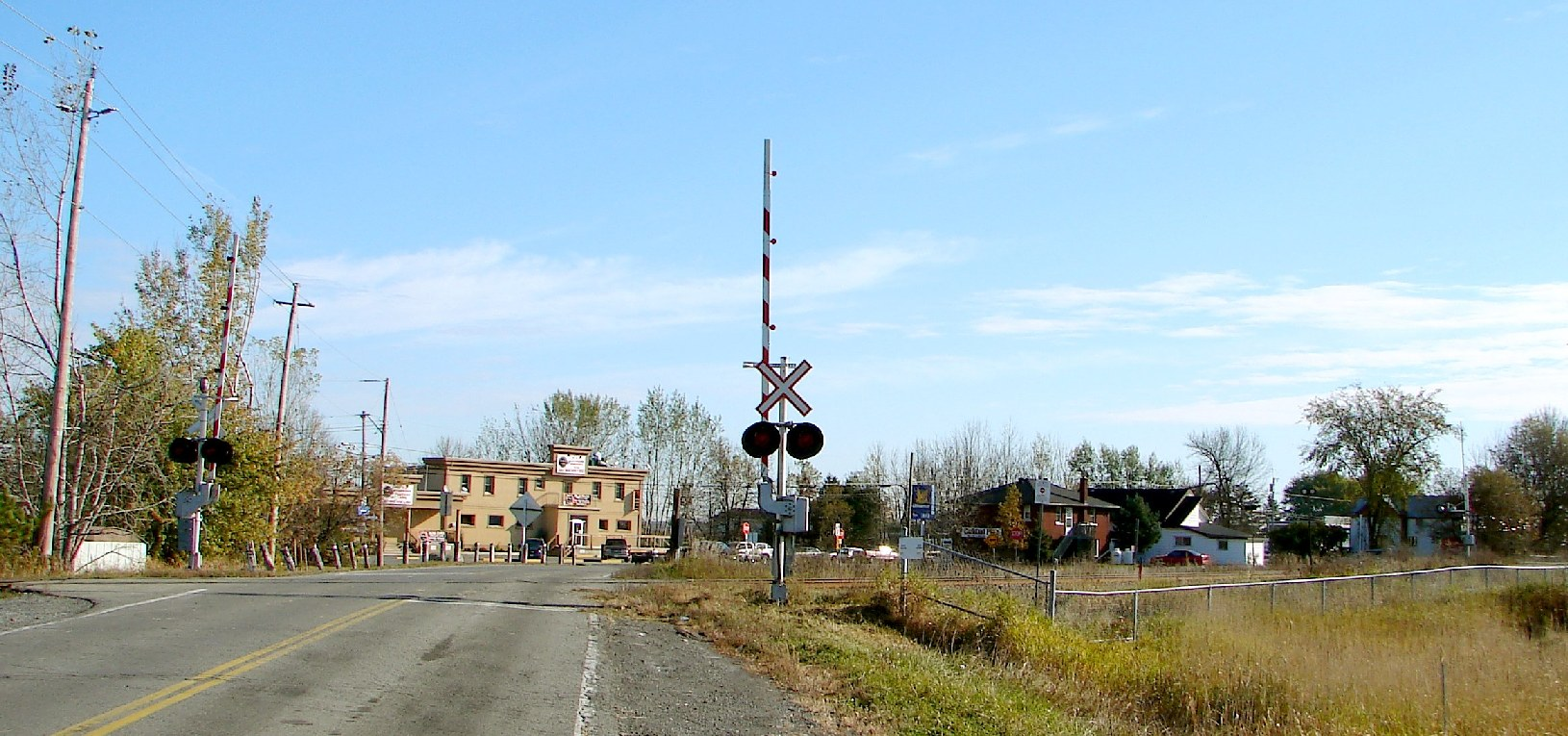 Carlsbad Springs (part of City of Ottawa), Ontario, Canada